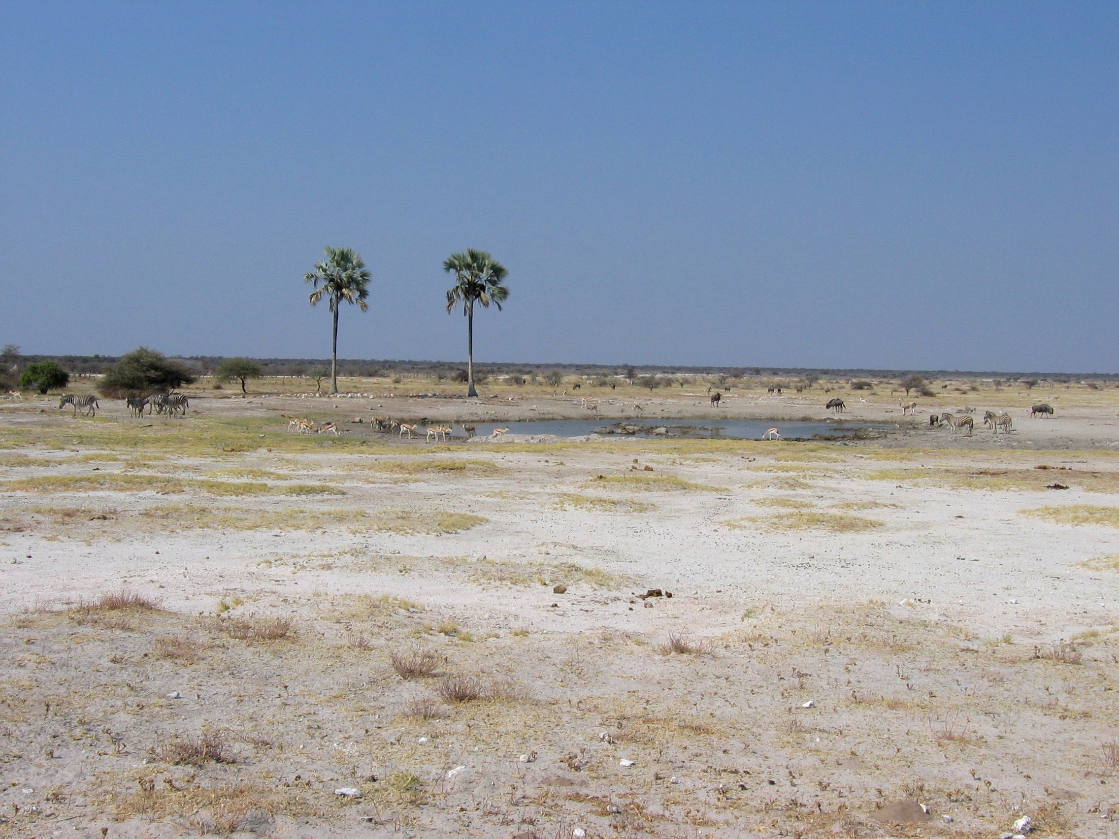 Twee Palms, Etosha, Namiba